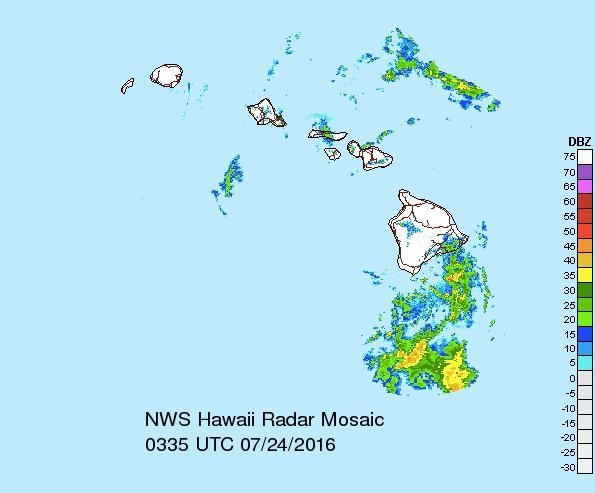 Rain from Darby was spreading over the islands on Saturday as the center moved over the Big Island.